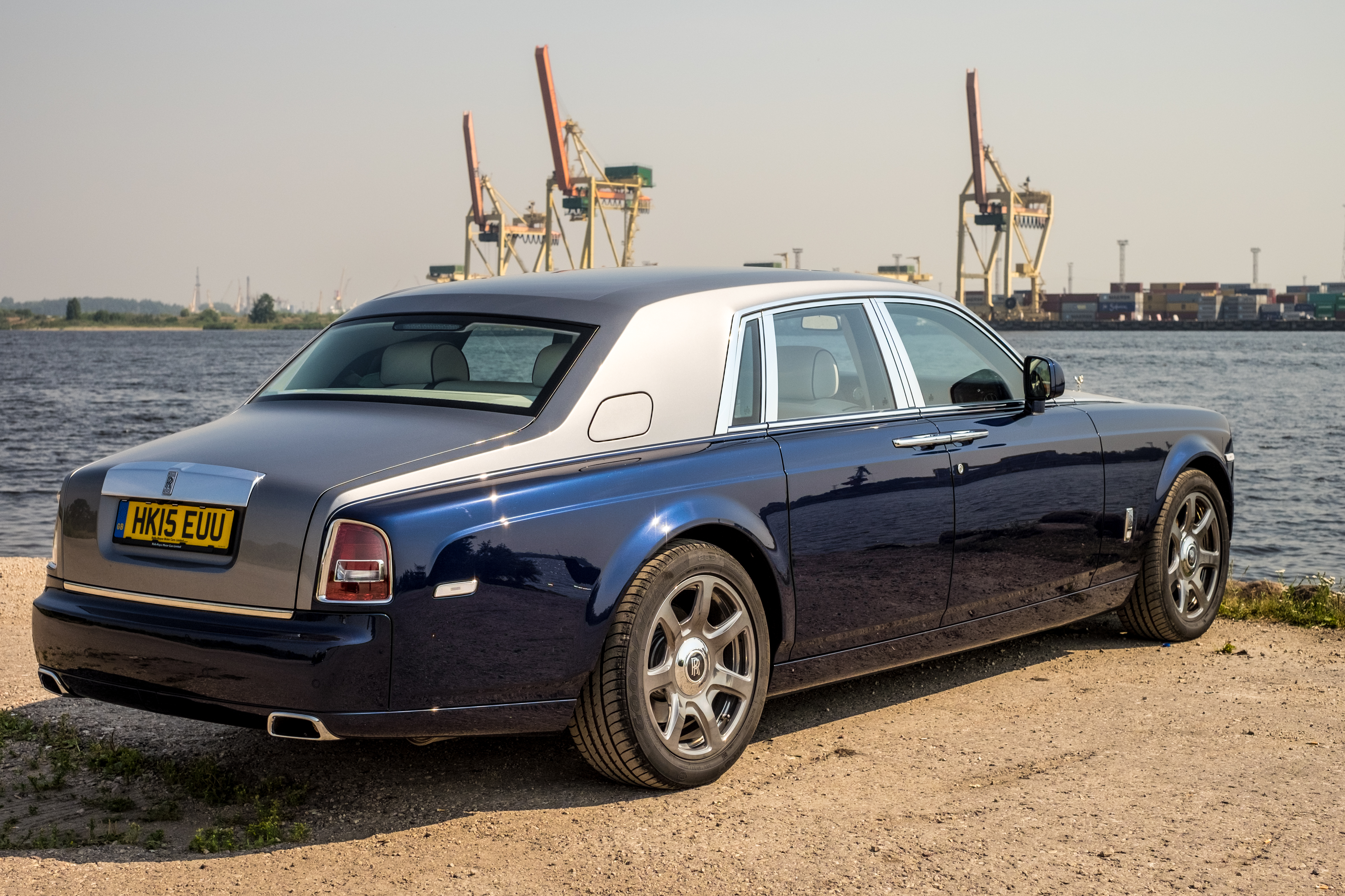 Rolls Royce Phantom 2015